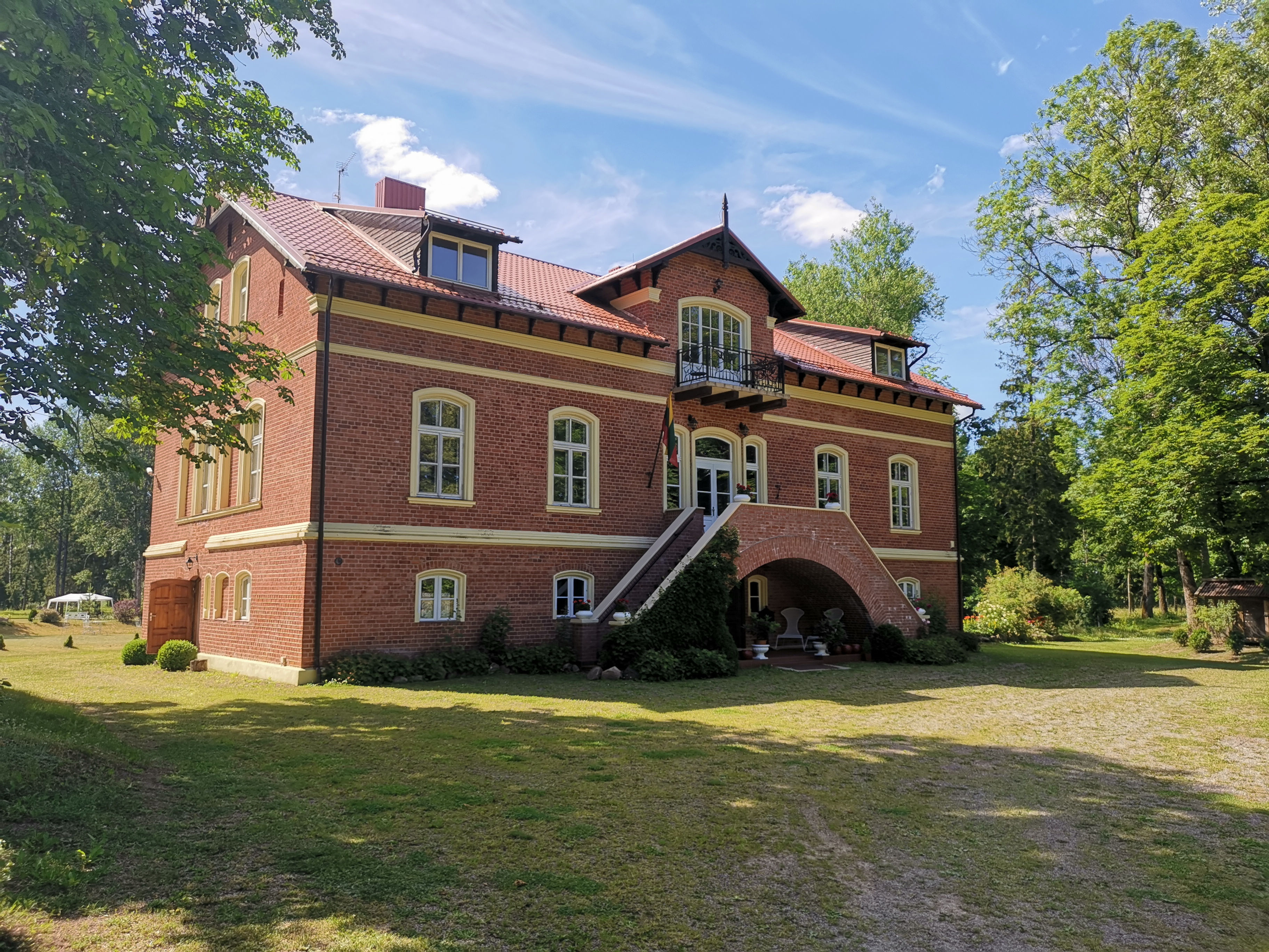 Facade of Dautarai manor in Mažeikiai district municipality Lithuania